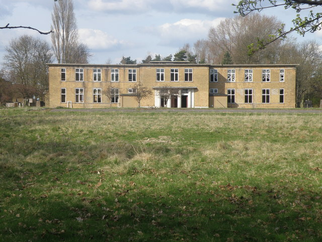 Former administration building, RAF Upwood Derelict buildings on the former RAF Upwood base.